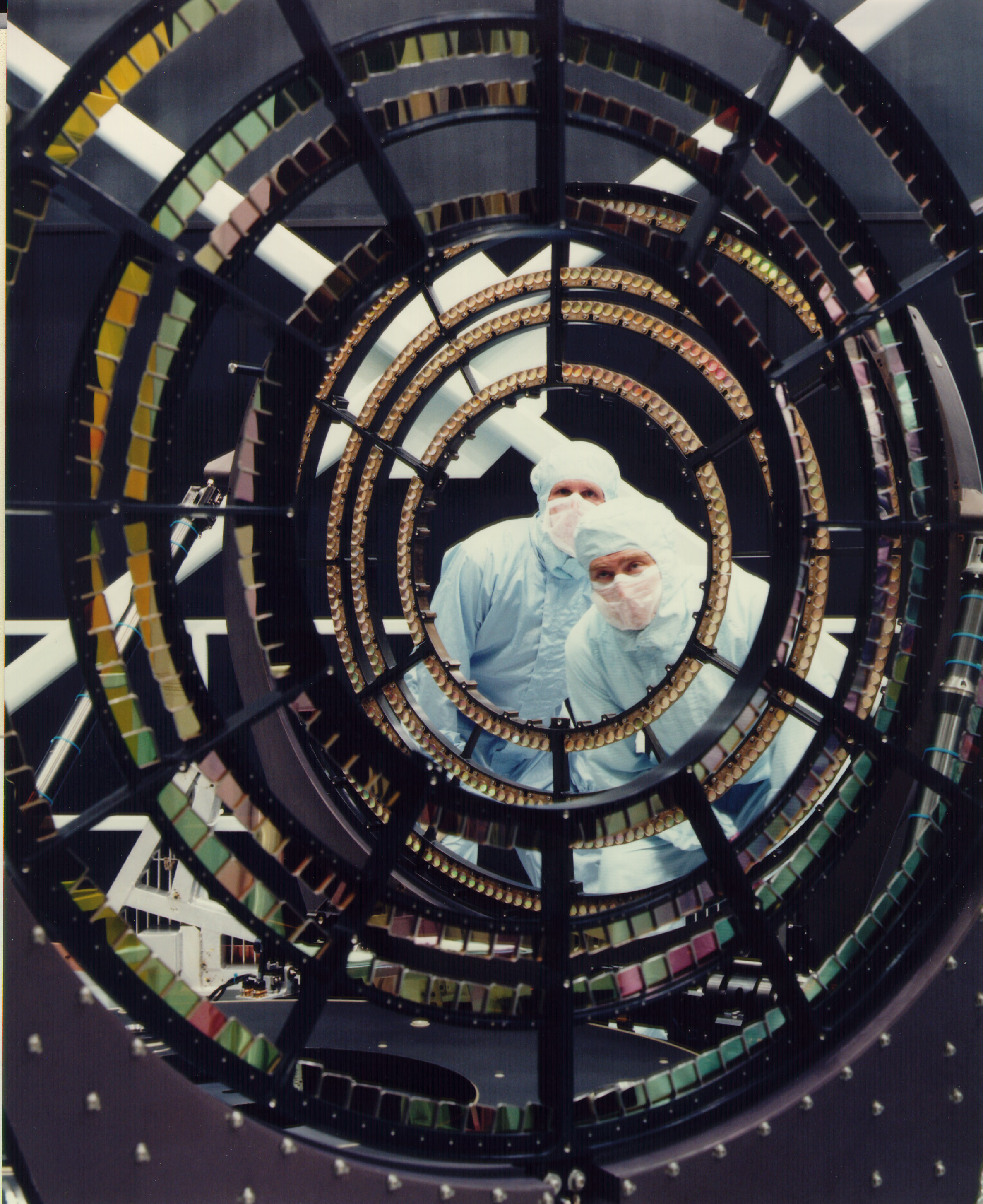 Chandra X-ray space observatory of the NASA : High- and Low-Energy Gratings being integrated into optical bench.